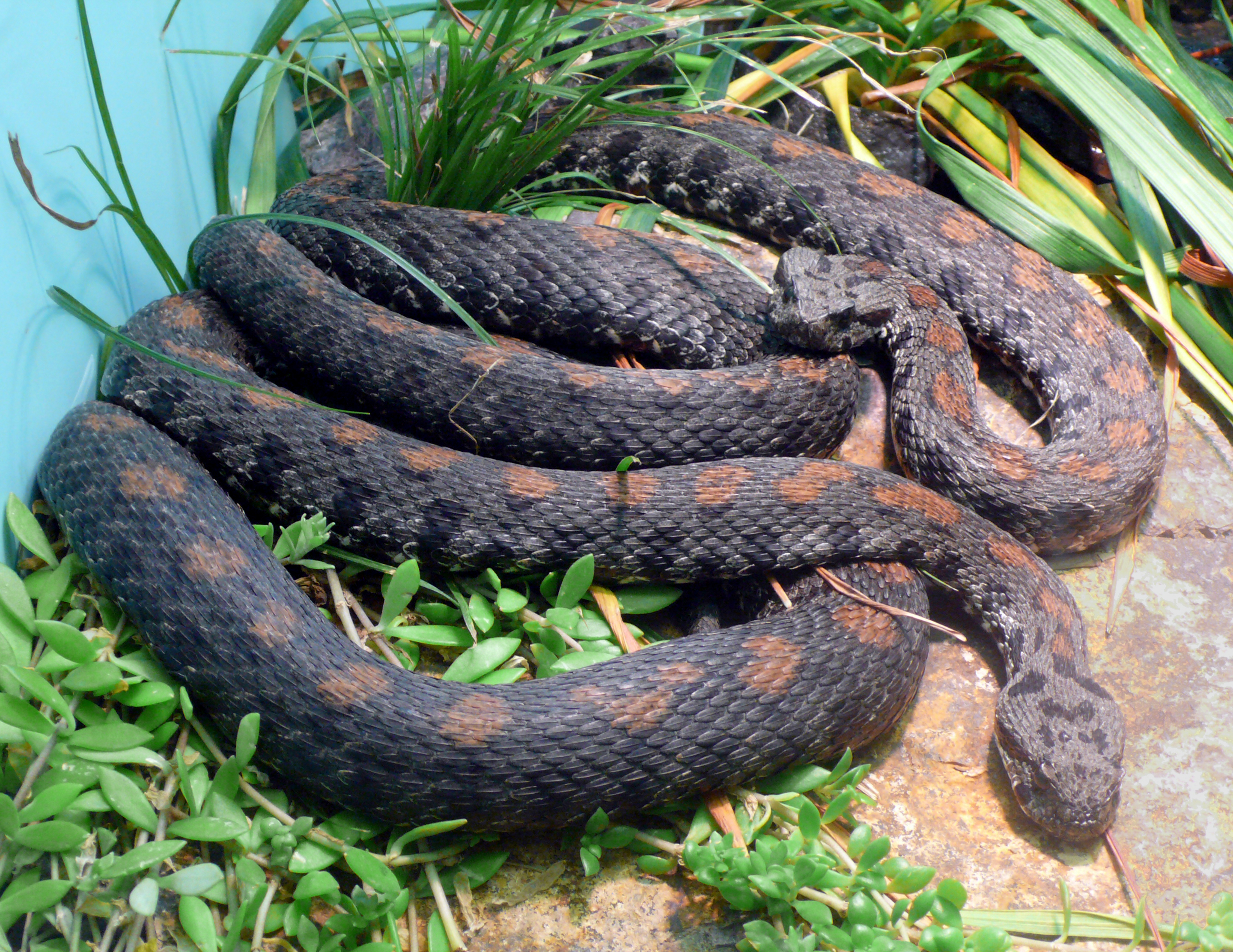 Armenian vipers (Montivipera raddei or also Vipera raddei)